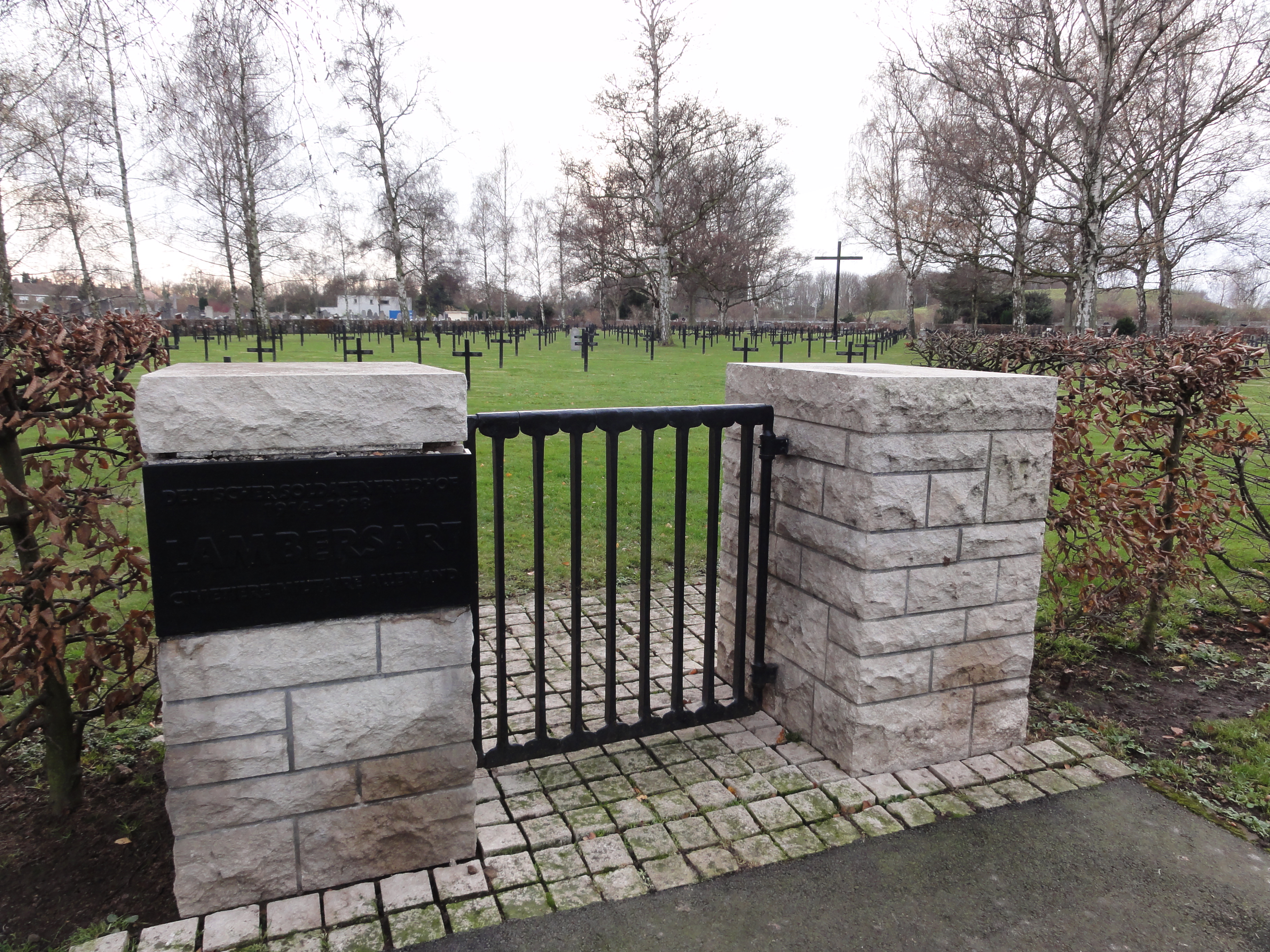 Deutscher Soldatenfriedhof Lambersart in Lambersart